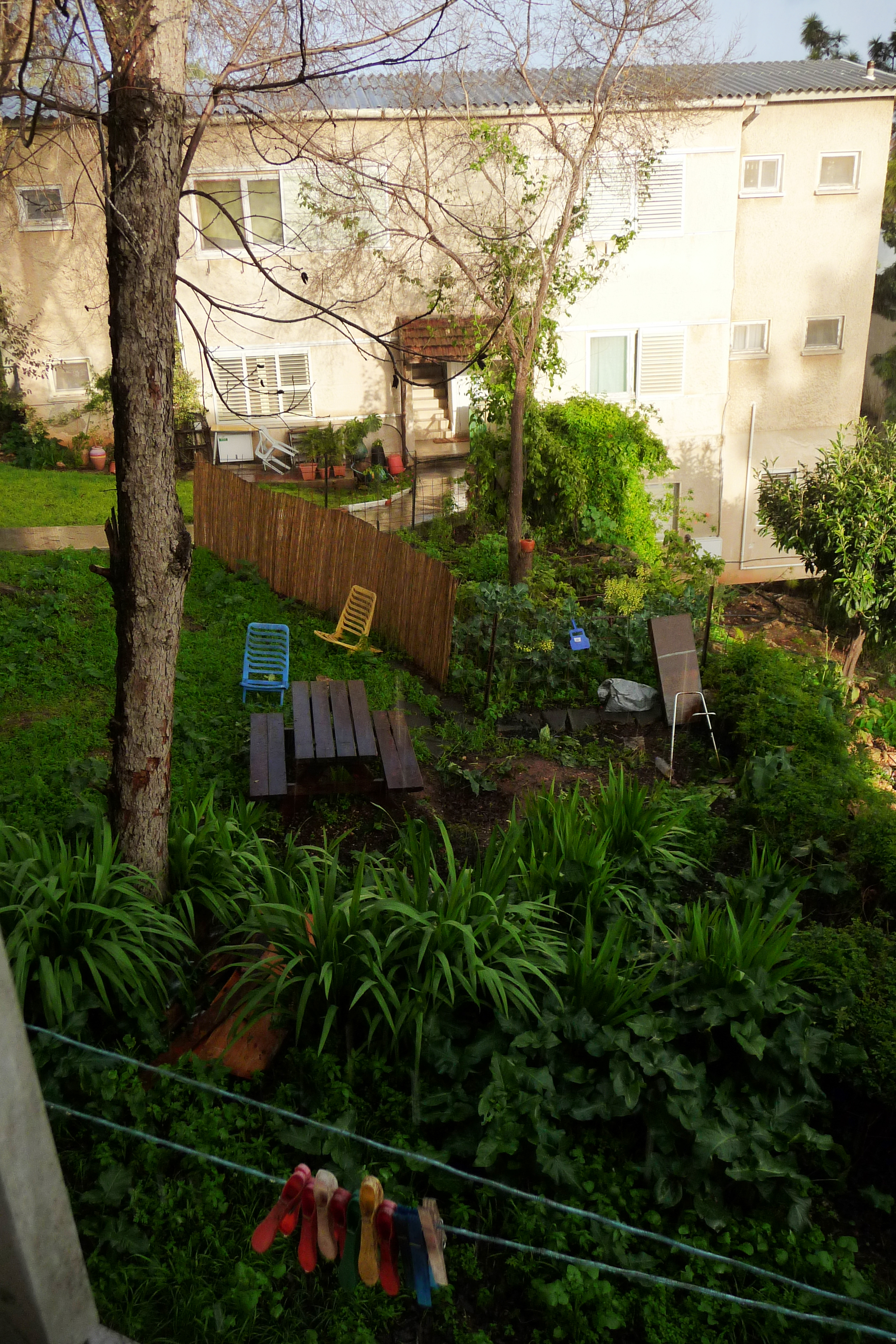 IBet Oren